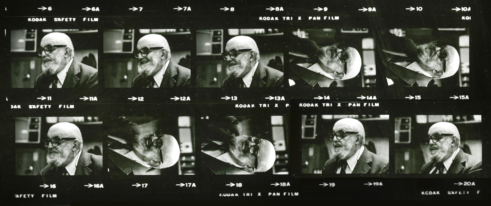 The photo contact sheet, identified as A2966 by the White House Photographic Office (WHPO), is housed at the Gerald R. Ford Presidential Library, a branch of the National Archives and Records Administration (NARA). This file is a 200 dpi photo contact sheet having images from roll of film A2966 of the August 9, 1974 - January 20, 1977 Gerald R. Ford White House Photographic Office Series A0001-A9999 and B0001-B2886 photographs. The date on the photo contact sheet is the date the roll of film was processed, not necessarily the date the photographs were taken. See table below for additional details.